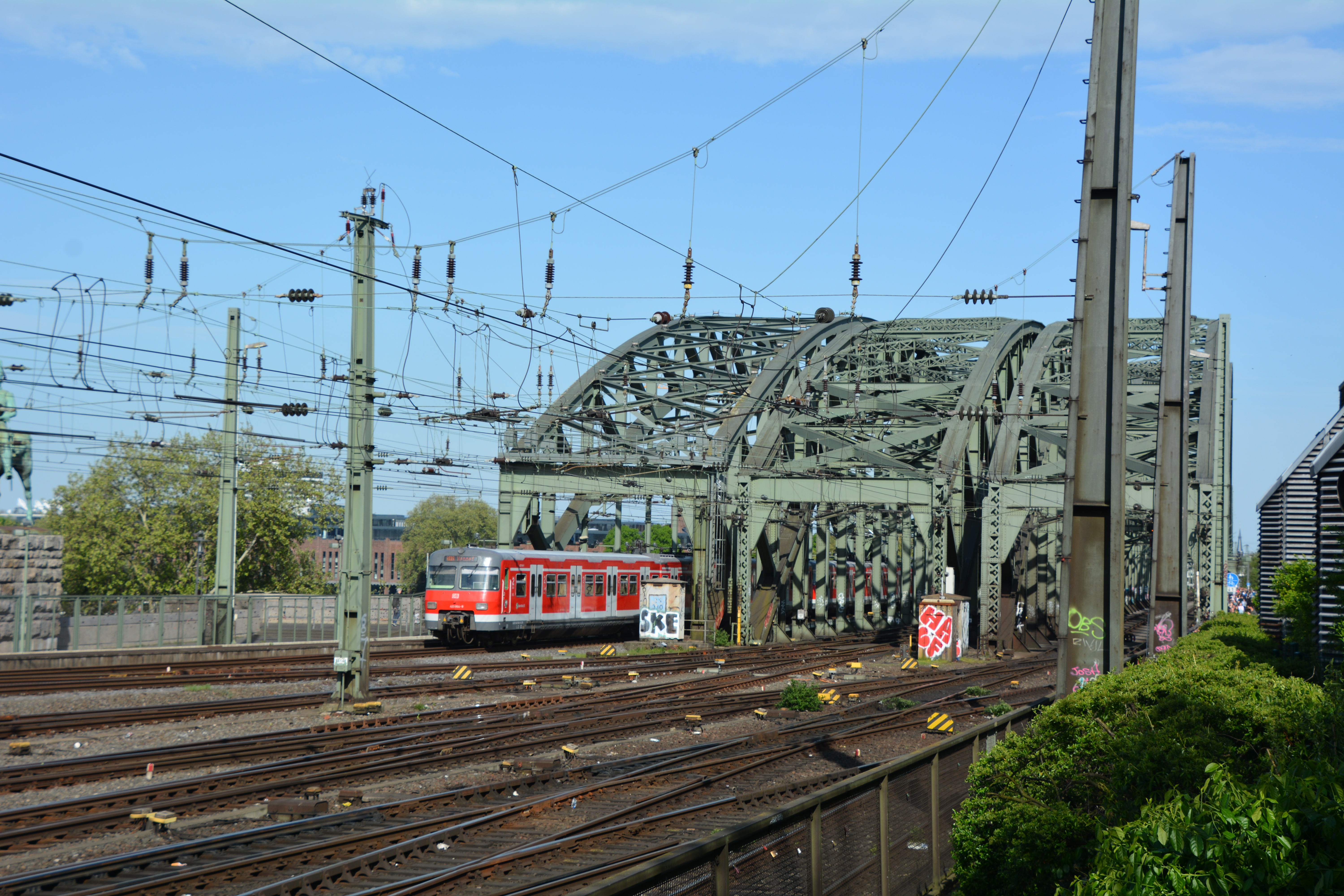 Hohenzollernbrücke, western side